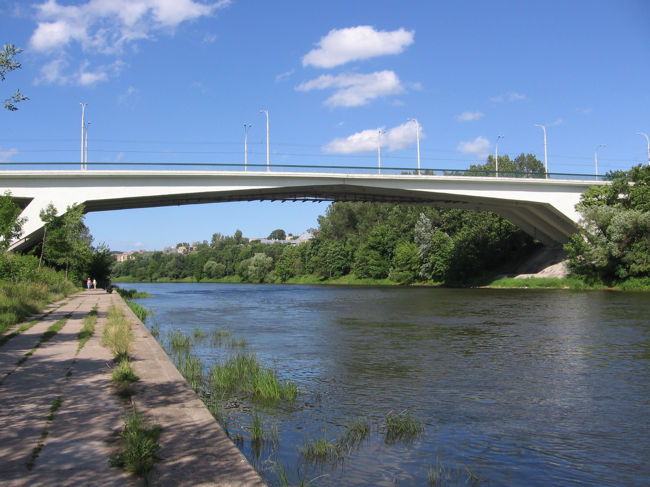 Žirmūnai Bridge. 1964 project by Leningrad institute "Promtransniiproject". Built in 1965 by the Second Vilnius Bridge Construction Administration.